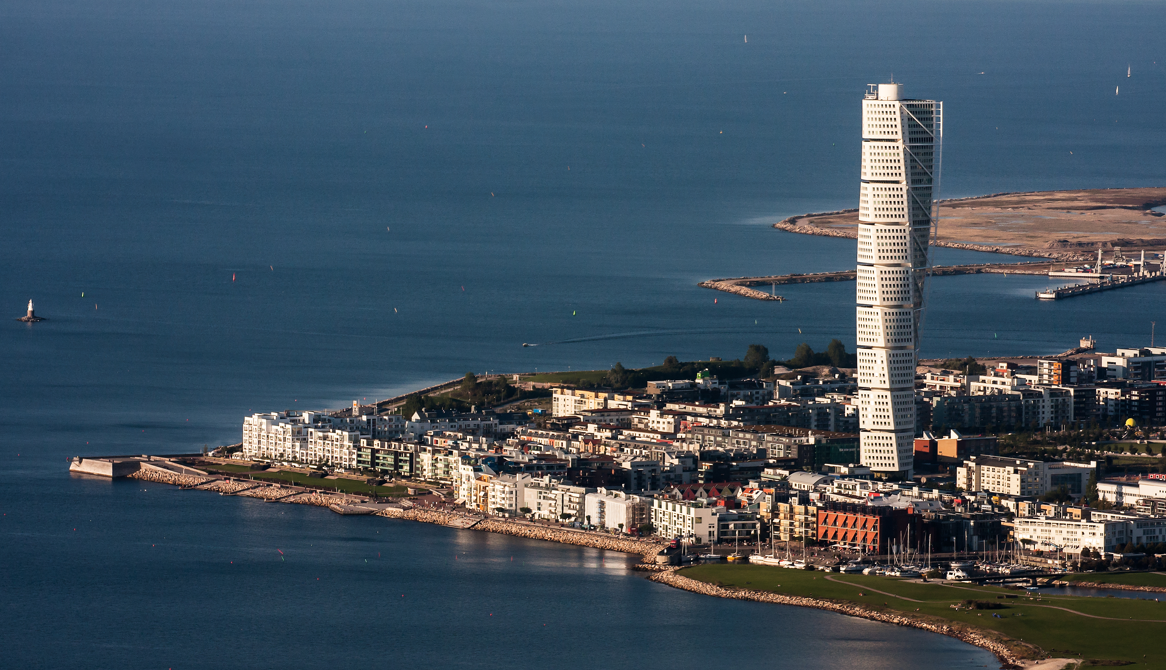 Malmö Western Harbour with skyscraper Turning Torso.